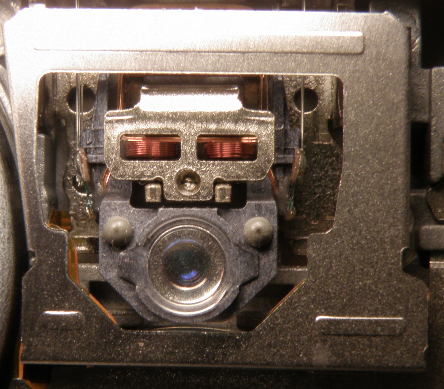 The lens on a CD/DVD drive on an Acer Aspire 4720 laptop.